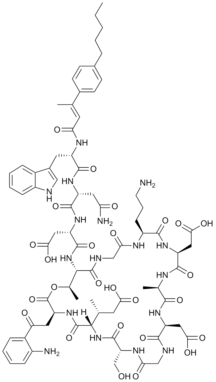 Structural formula of surotomycin